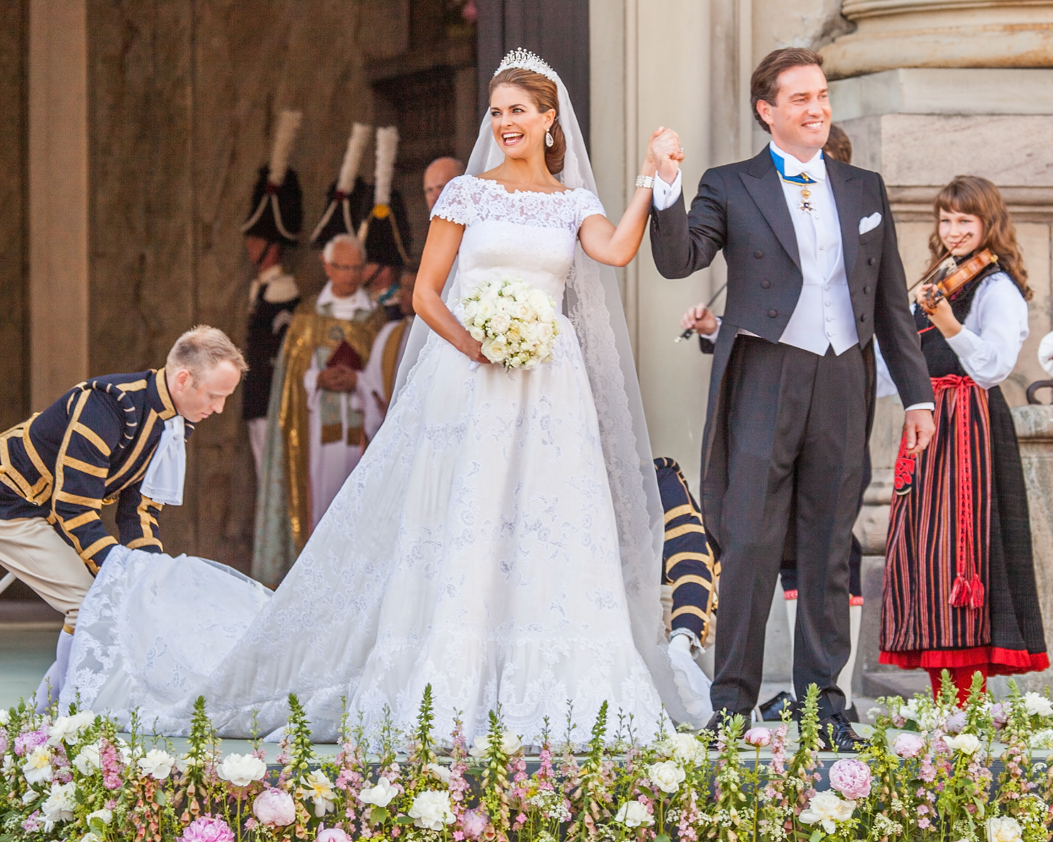 Princess Madeleine of Sweden and Christopher O´Neill wedding June 2013